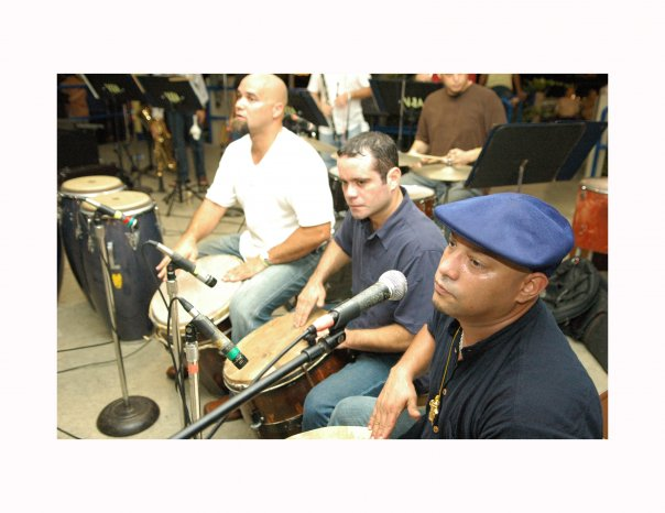 Tito Matos of Viento de agua, playing the traditional bomba drums.